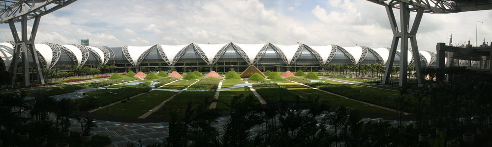 Courtyard garden of Suvannabhumi International Airport (SBIA), Thailand (conceptual design theme: Countryside) - Taken by A.Aruninta